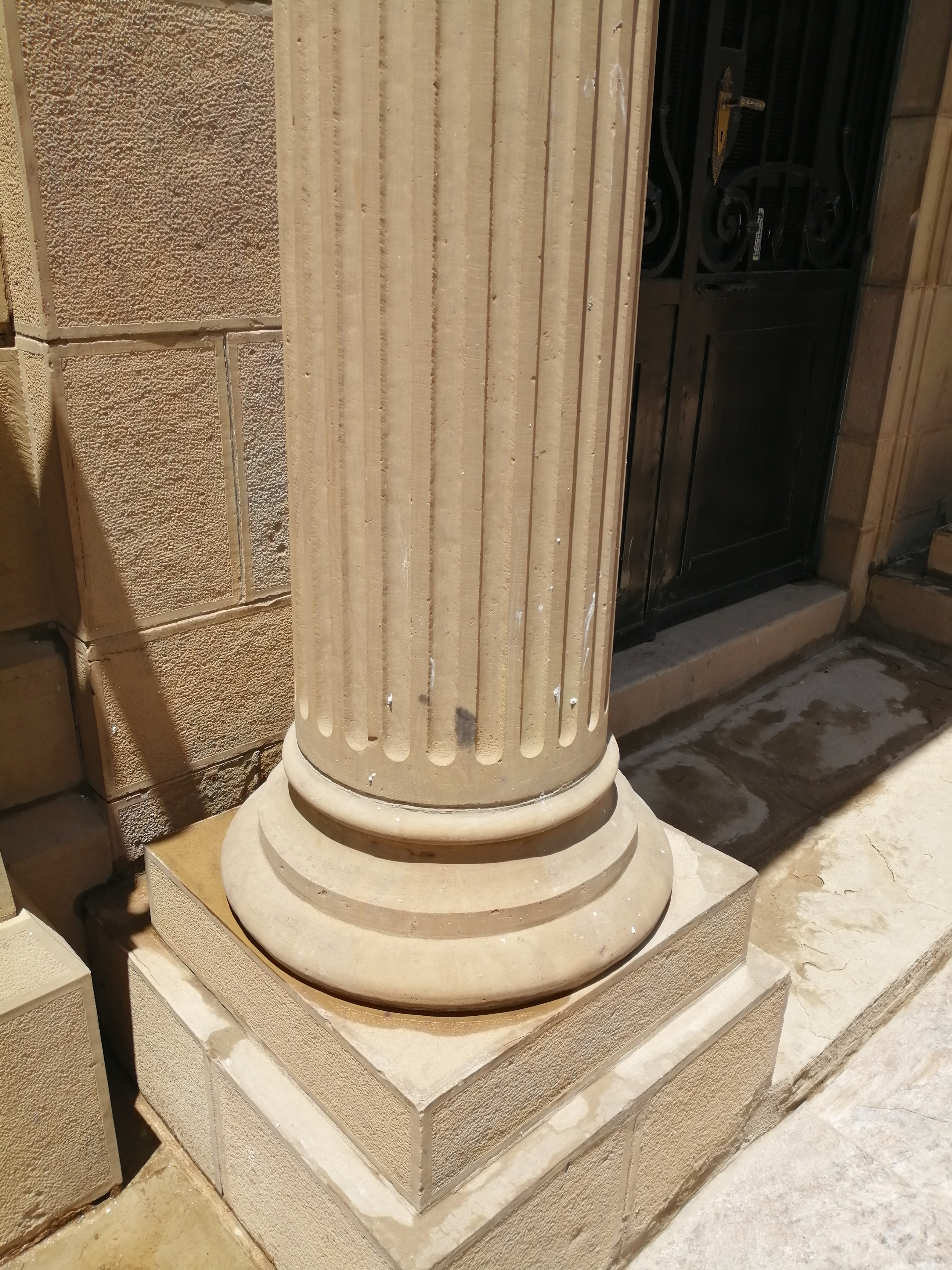 MAUSOLEO .HJ